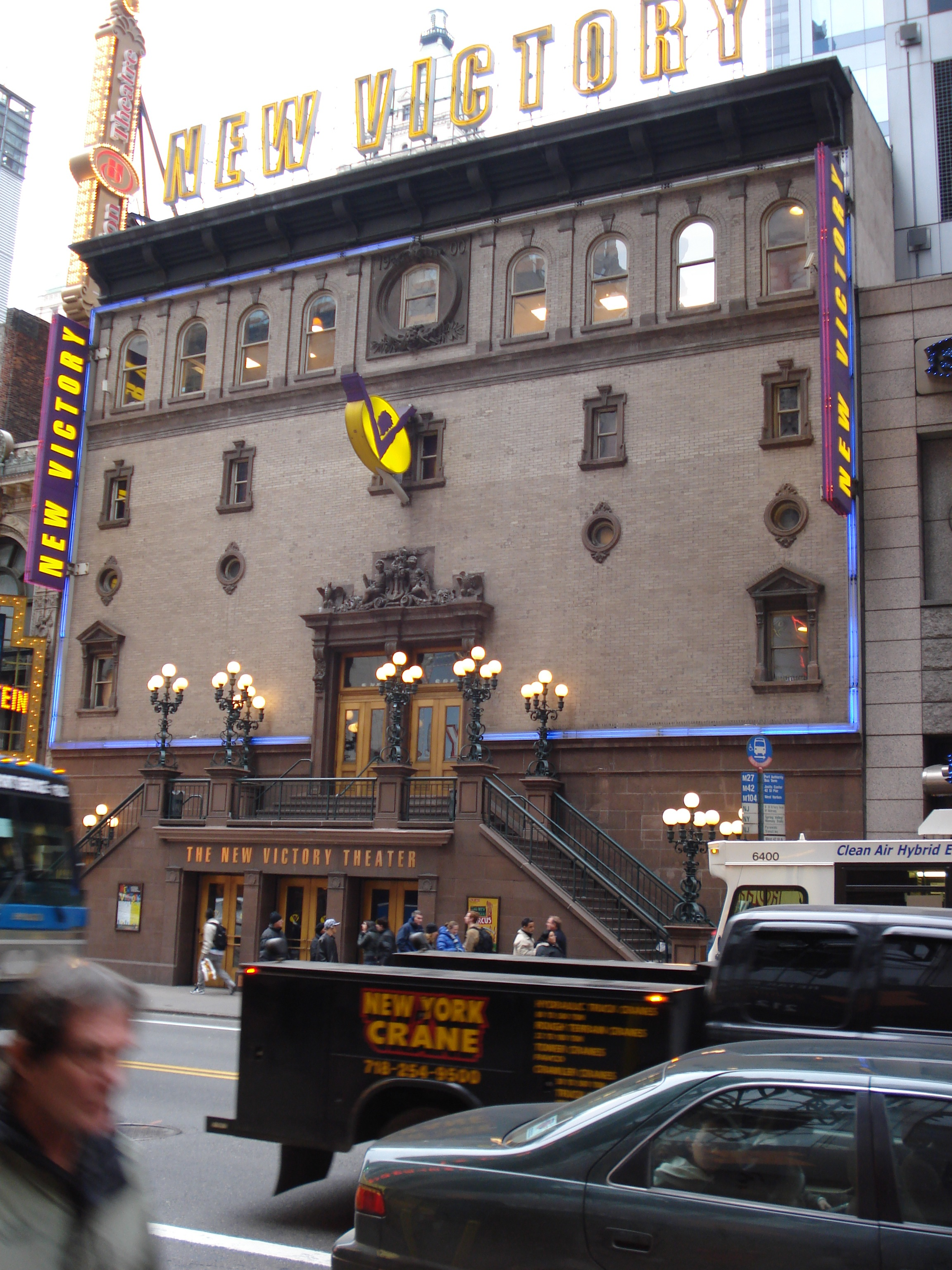 New Victory Theatre, NYC